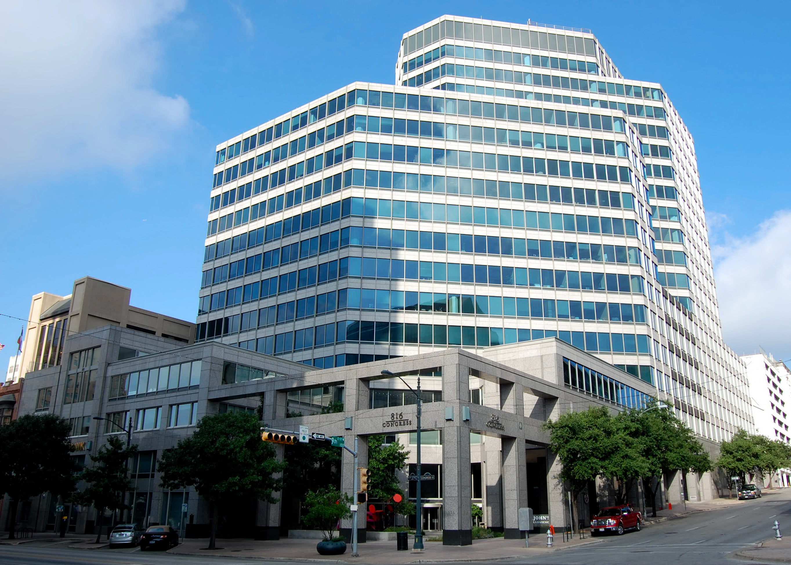 816 Congress Avenue in Austin, Texas